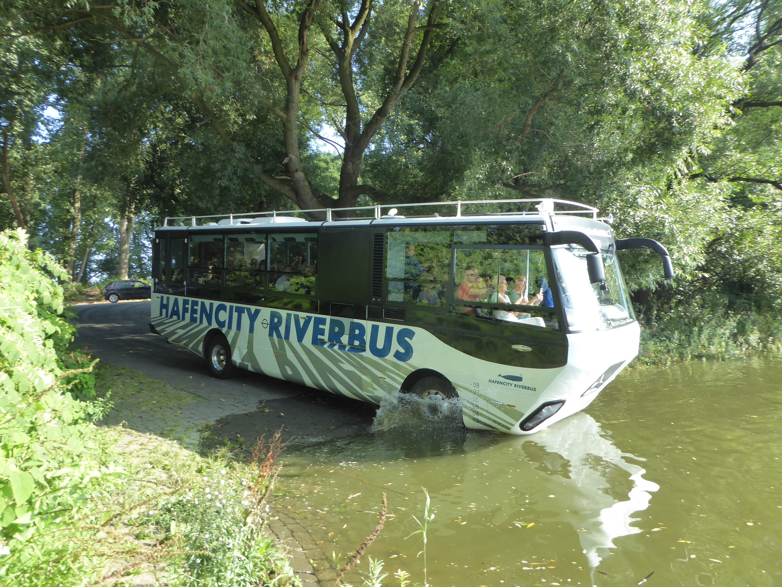 HafenCity RiverBus is an amphibious vehicle which provide a combination of sightseeing in Hamburg and a boat trip on the river Elbe. The bus gets into the water at Entenwerder.